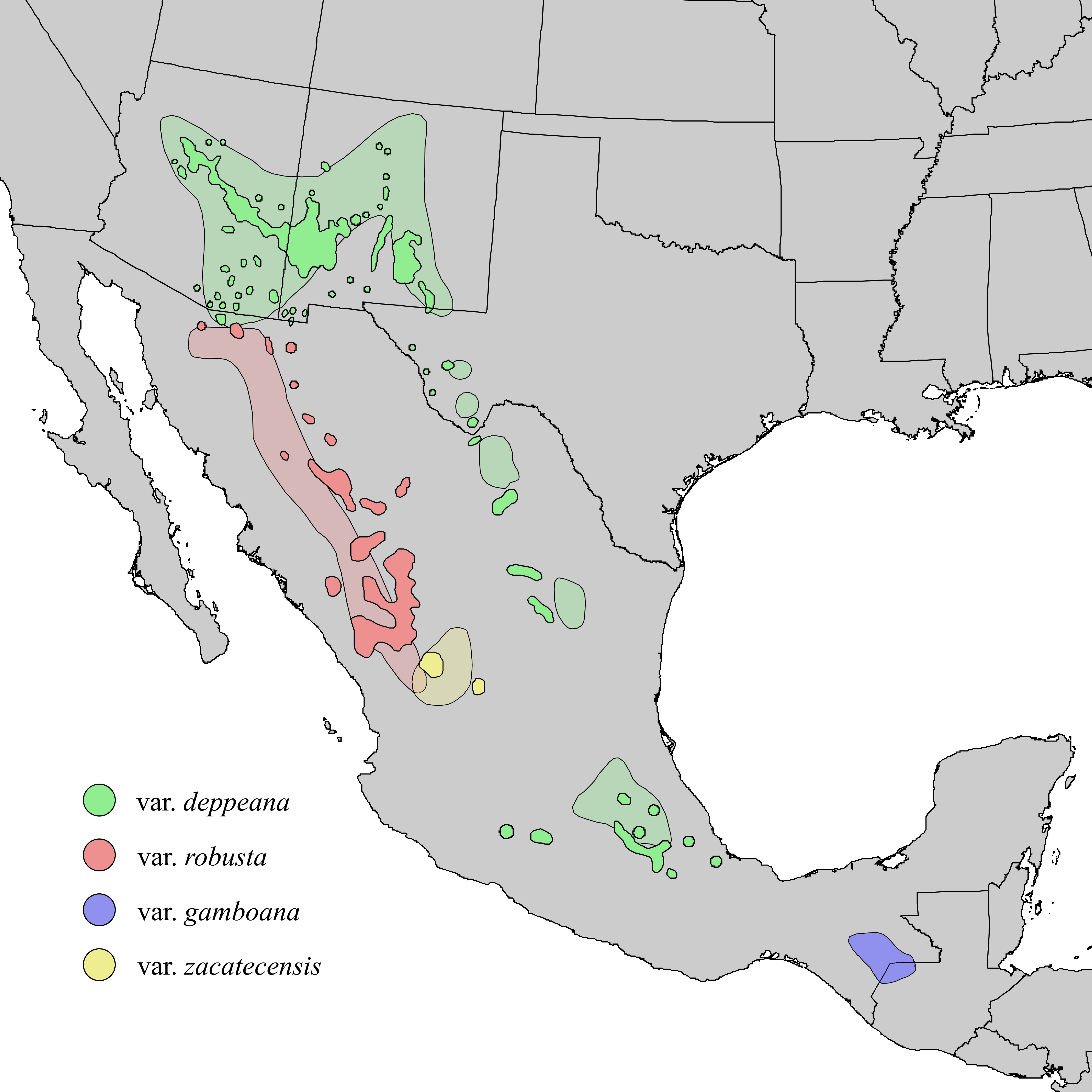 Natural distribution map for Juniperus deppeana (alligator juniper). The shaded areas and indicated varieties are from Adams et al. (2006), which mapped out J. deppeana varieties and forms. The darker colors show possible varieties presented the Elbert Little (1971) map populations based only on their proximity to the shaded areas. The var. gamboana population did not appear in the Little (1971) map. It was considered to be a separate species J. gamboana until merged into J. deppeana by Adams (2006). Adams also showed var. patoniana interspersed amongst the var. robusta population, forma sperryi amongst the var. depeana populations of Arizona, New Mexico and Texas, and forma elongata also within the texas population. These were omitted from this map for simplicity.